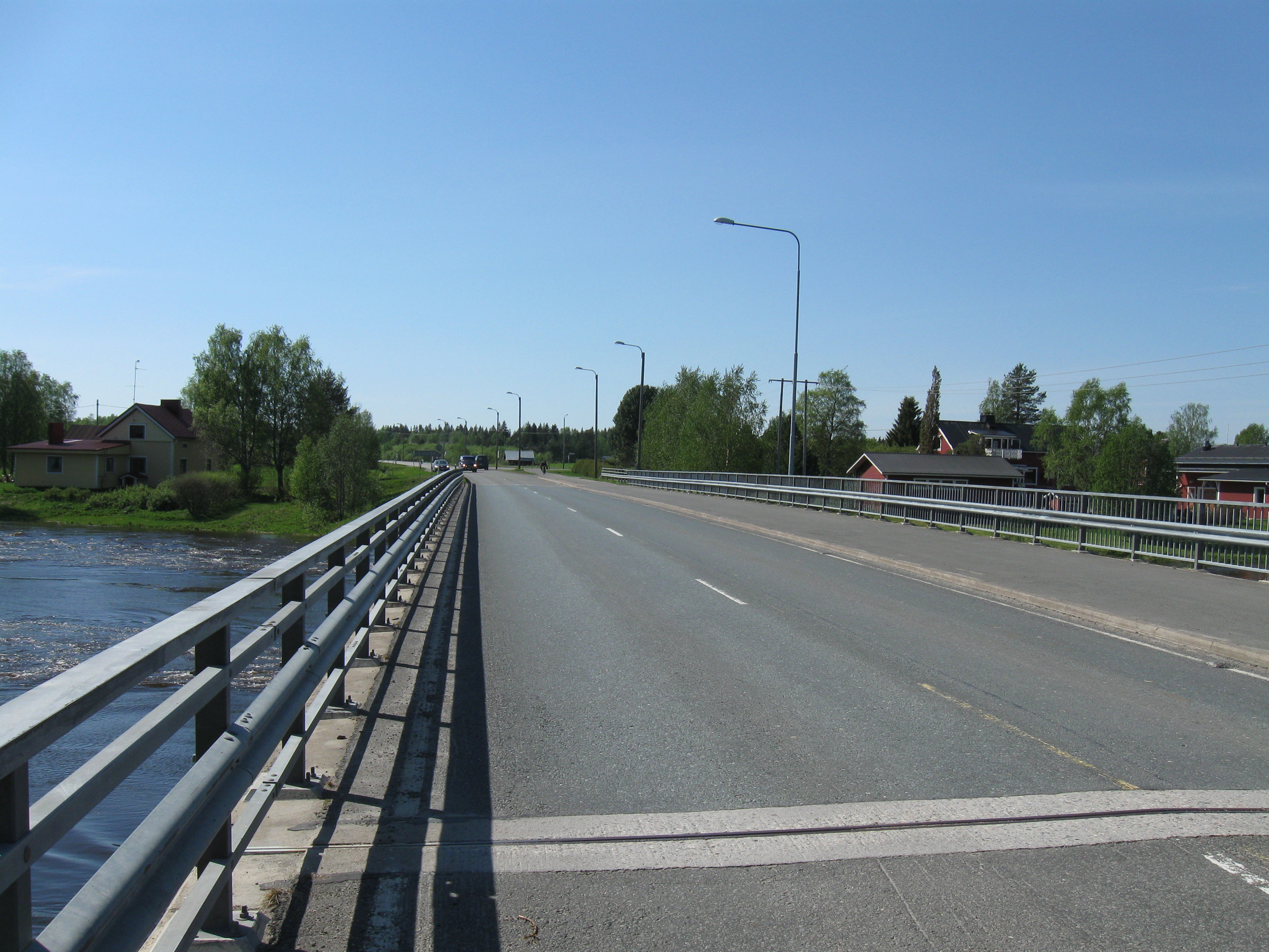 Regional road 927 in Yli-Liakka, Tornio, Finland, seen towards the South-West from the bridge of the Liakanjoki river.